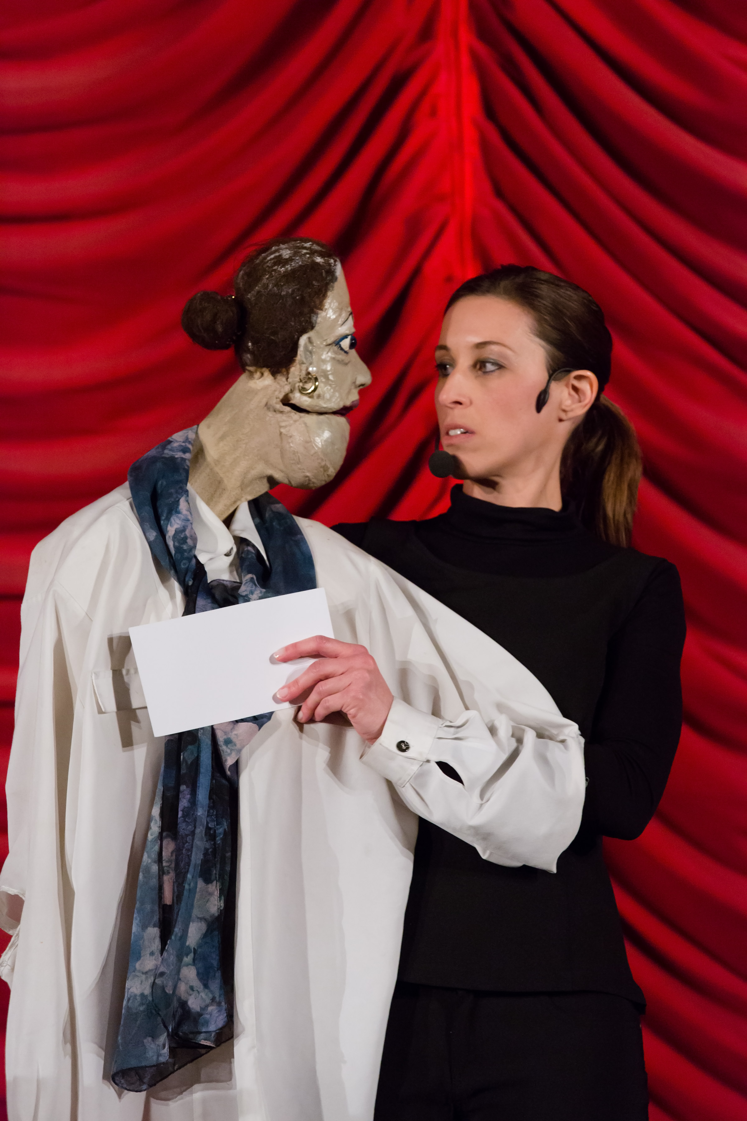 Manuela Linshalm, with a hand puppet designed by Nikolaus Habjan, presenting the opening evening of the film festival Tricky Women at Gartenbaukino, Vienna,Austria.